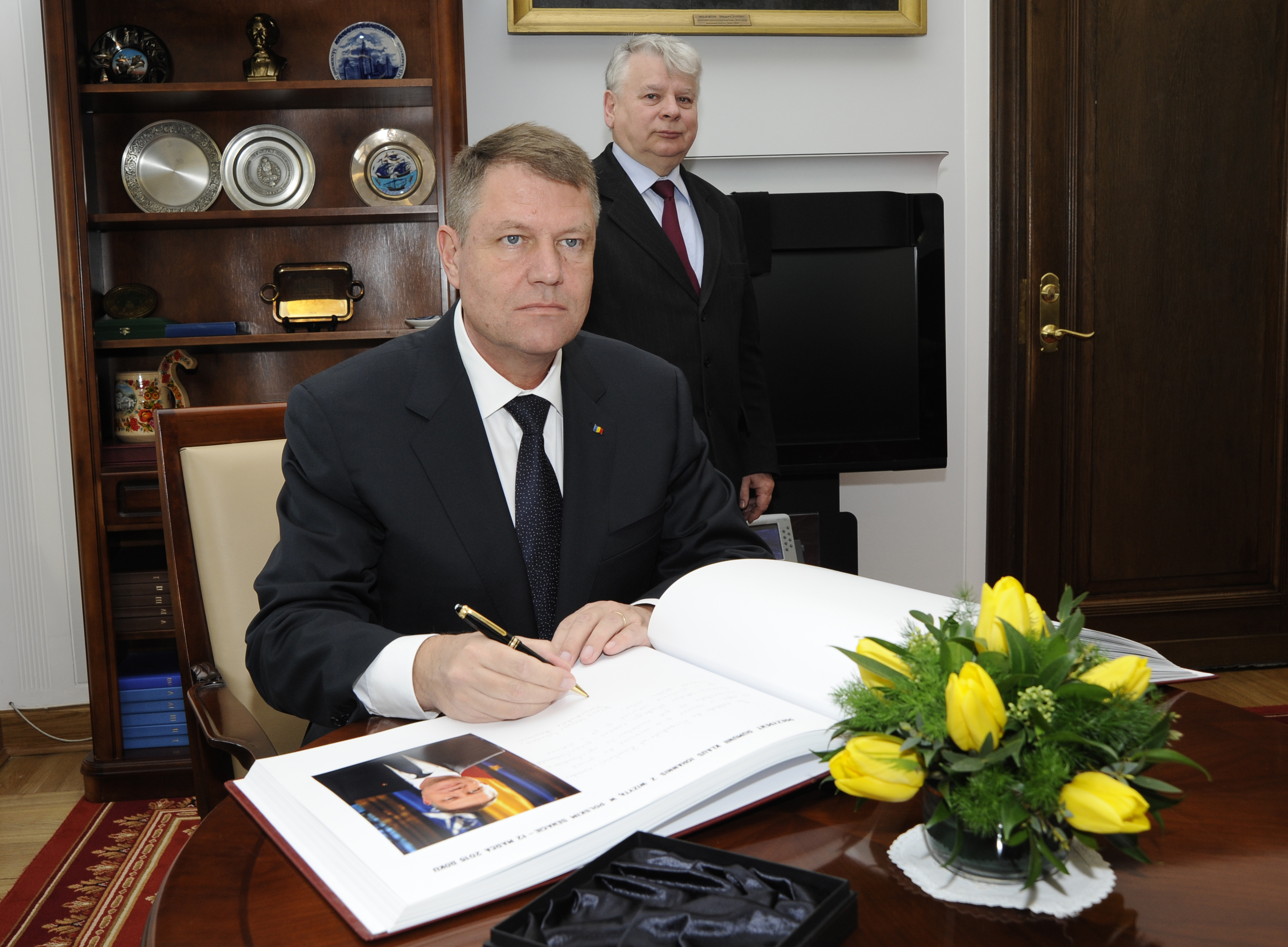 President of Romania Klaus Iohannis in the Polish Senate